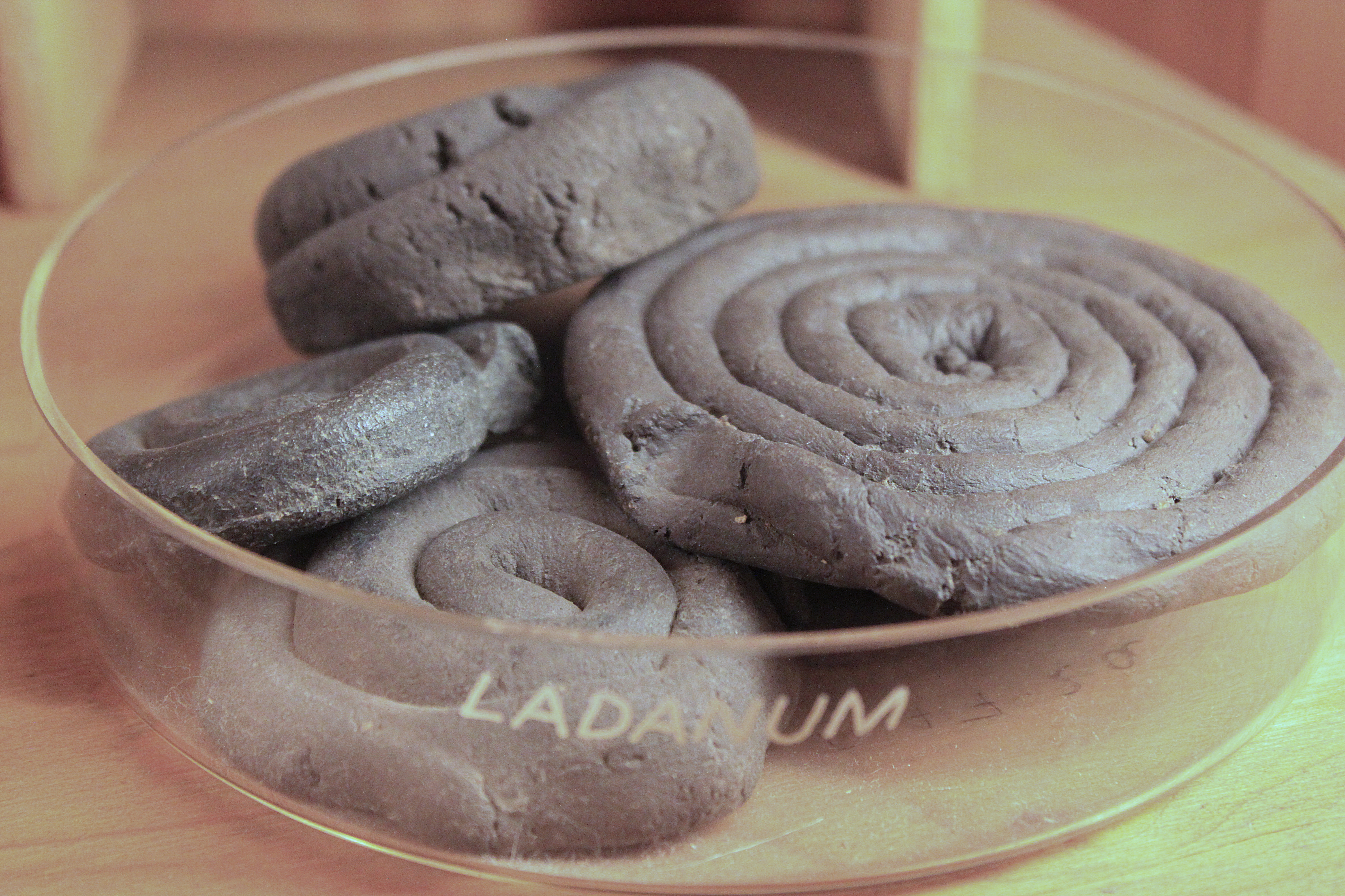 A dish of ladanum spirals used for medical applications. Exhibition piece of the German Pharmacy Museum in Heidelberg, Germany.